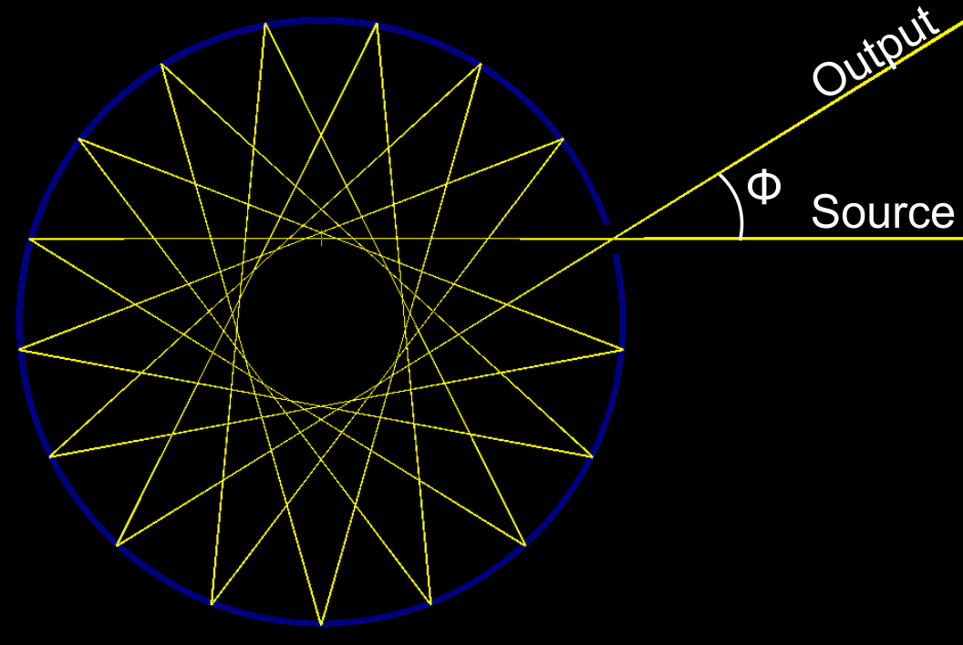 Schematic of a circular multipass cell, where the beam propagates on a 17-spiked star pattern. The beam pattern - and thus the optical path length - can be changed by adjusting the beam incidence angle.